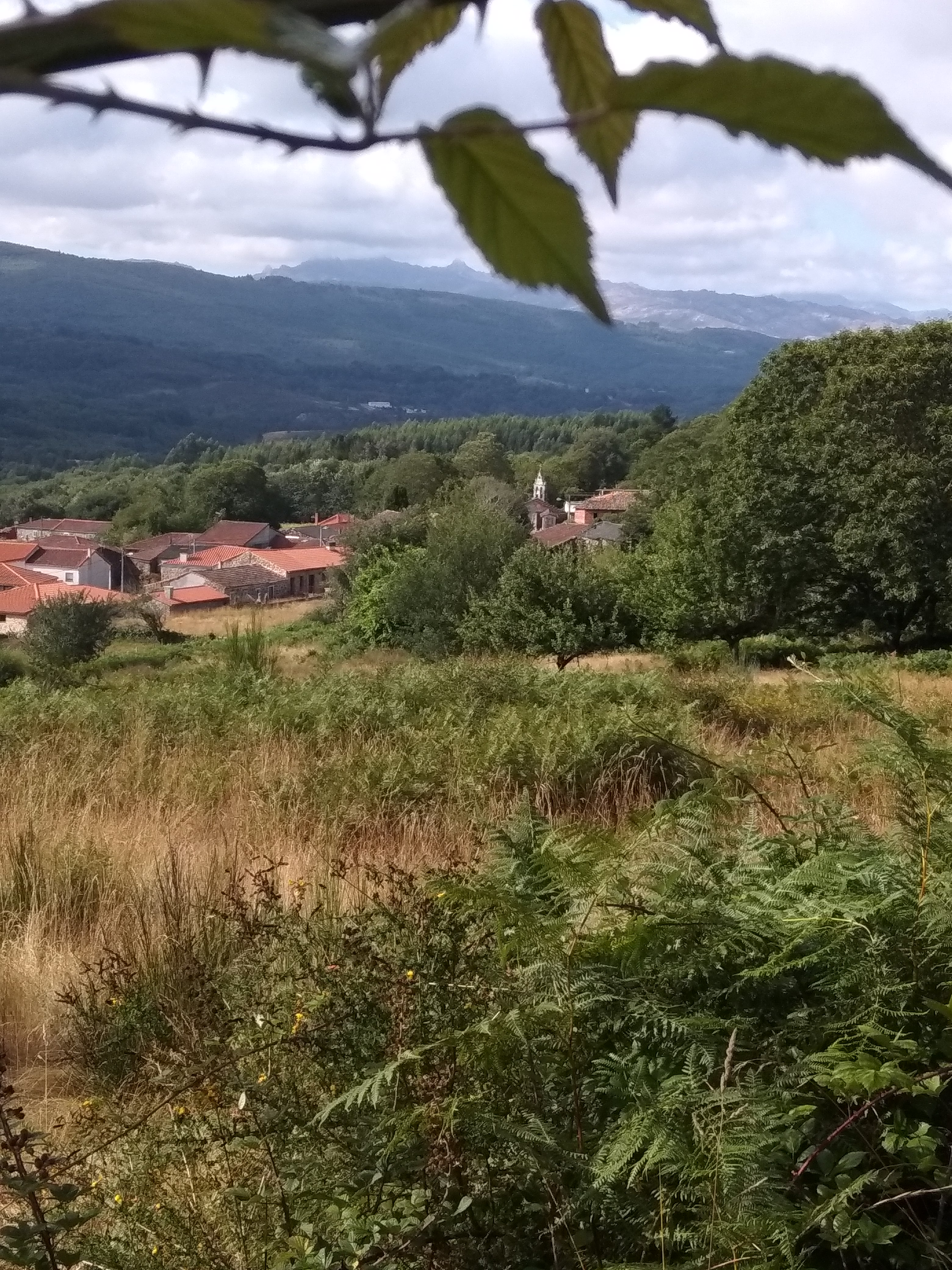 Views